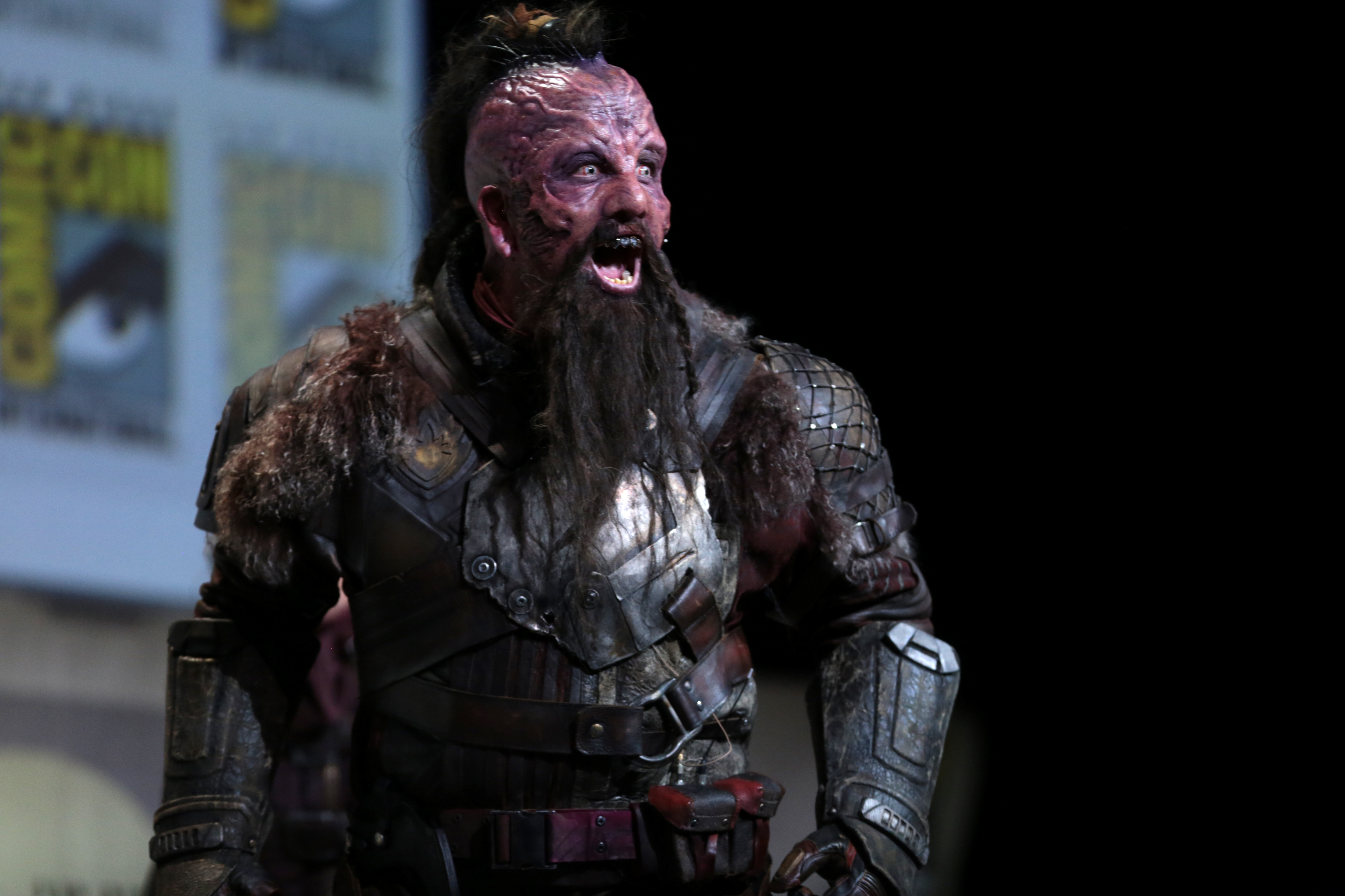 Ravager speaking at the 2016 San Diego Comic Con International, for "Guardians of the Galaxy Vol. 2", at the San Diego Convention Center in San Diego, California.